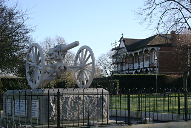 The Doris Gun in Devonport Park A trophy from the Boer War this gun was erected here by the crew of H.M.S Doris. In the background is the Bowling Pavilion.